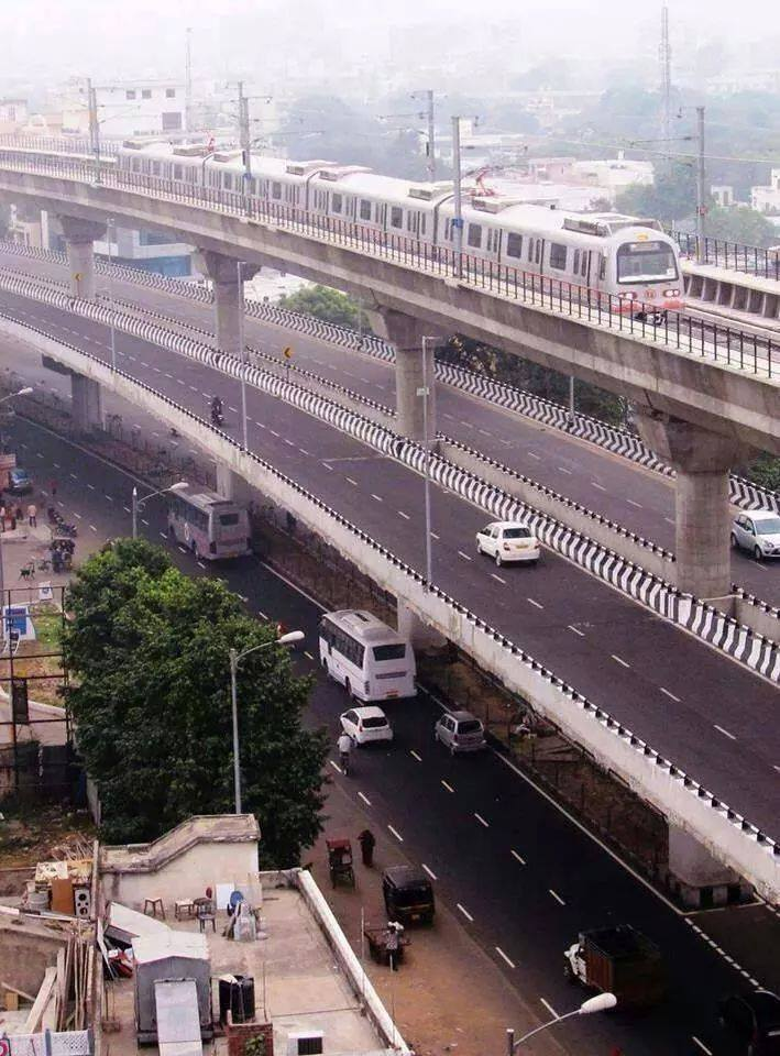 Jaipur Metro is the first metro in India to run on Double-storey elevated road and Metro track.